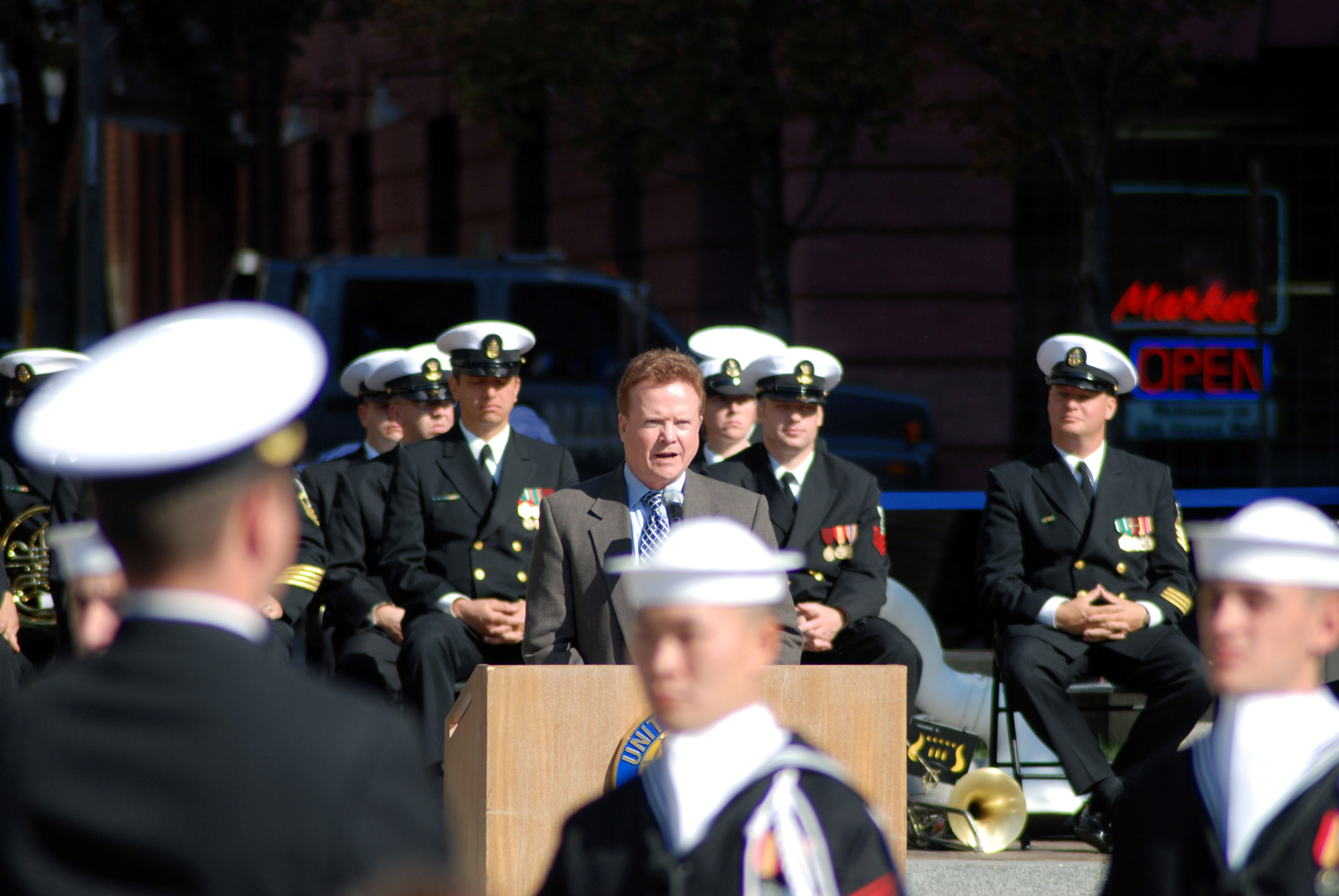 WASHINGTON (Oct. 13, 2007) – Sen. Jim Webb of Virginia, a former Secretary of the Navy, delivers remarks during the Navy Day celebration held at the U.S. Navy Memorial. U.S. Navy photo by Mr. Philip Molter (RELEASED)